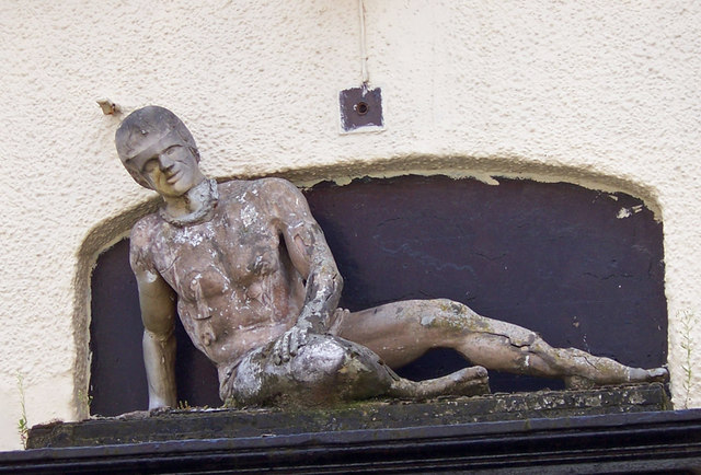 The Dying Gladiator, Brigg